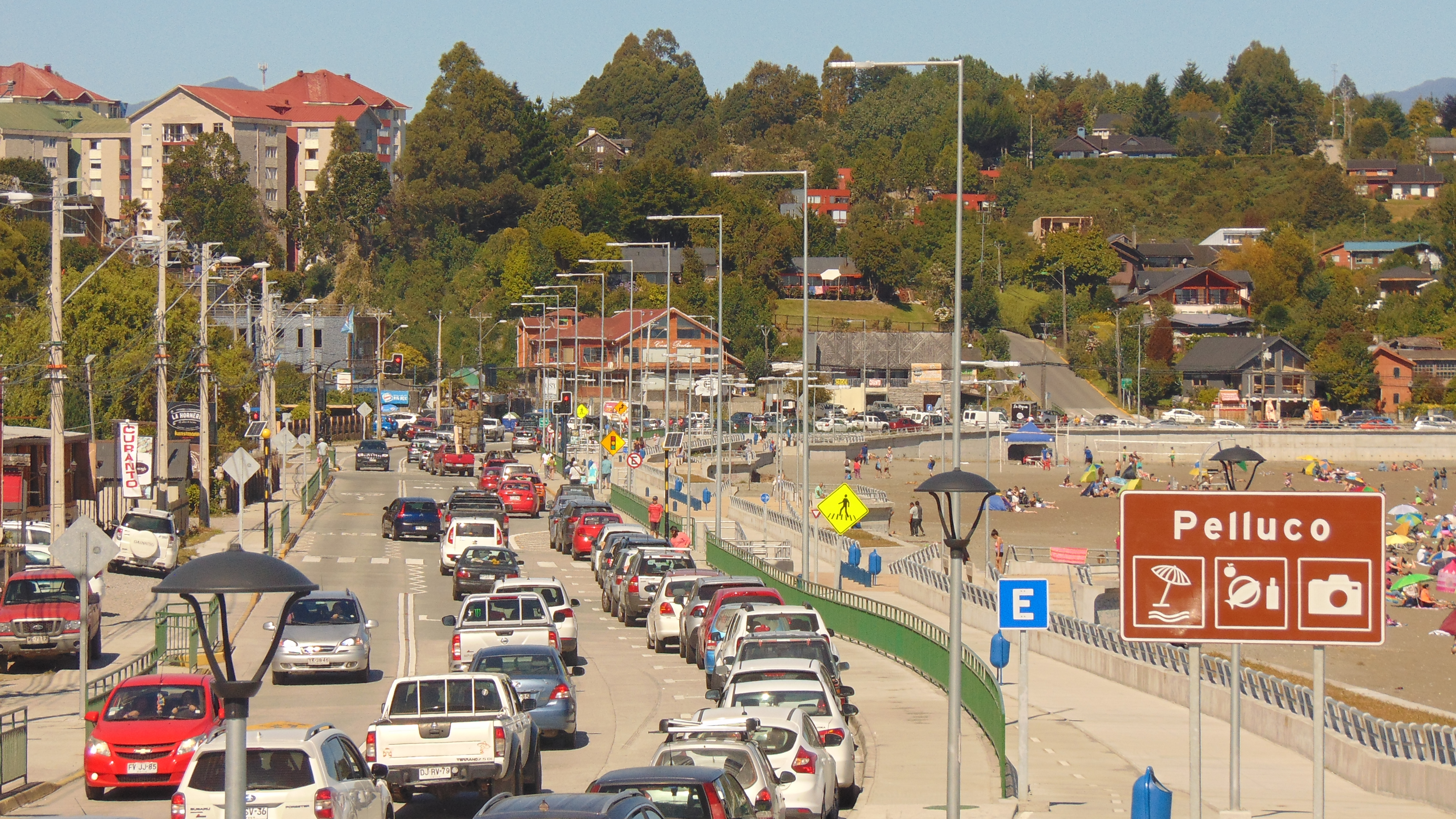 Pelluco Beach from Ship viewpoint, January 2019